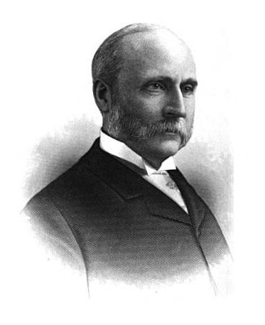 Image is from page 278 Scan is from the Google Books archive: Title National magazine: a monthly journal of American history, Volume 17 Published 1893 Original from the New York Public Library Digitized Mar 14, 2008